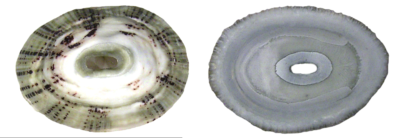 Family: Fissurellidae Size: 50 mm Origin: Gulf of California to Peru Photo: U.Schmidt, 2007